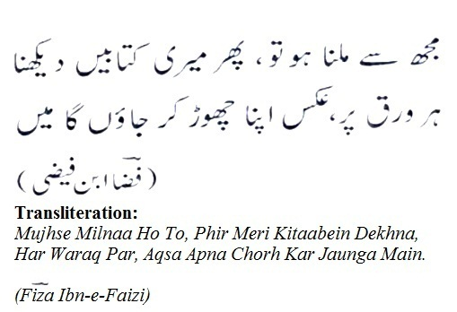 It means that if you want to meet me after my death, you can go and read my books, you will find that each and every single page of my books describe my personality. It is just like that my works are mirror image of my personality.;Other information: NA